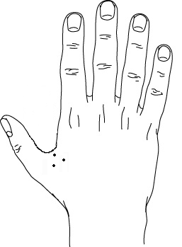 An illustration of the three dots tattoo.